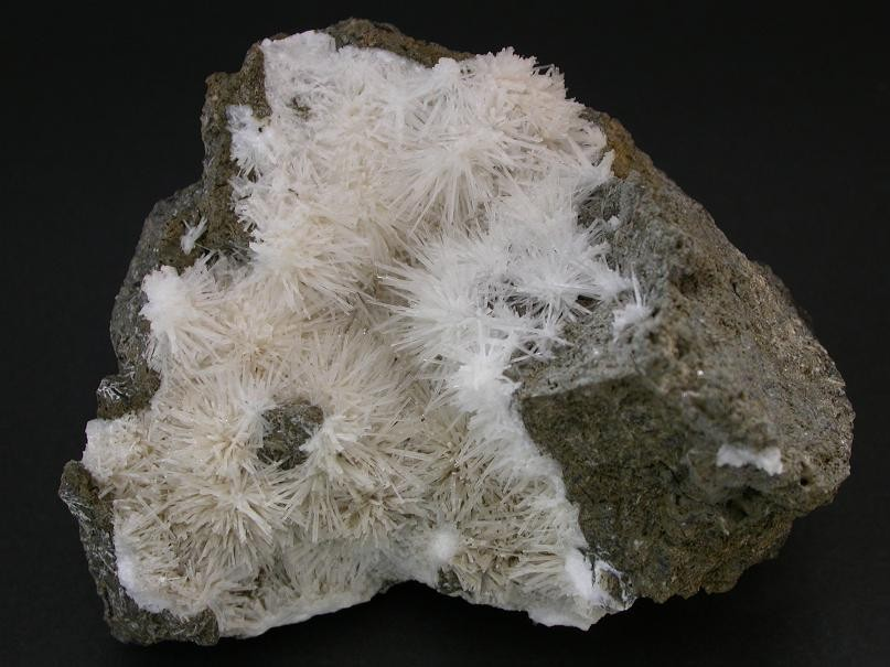 Natrolite Locality: Zeilberg Quarry, Maroldsweisach, Franconia, Bavaria, Germany A german classic specimen, Natrolite from Maroldsweisach. Specimen size 10x8 cm. Specimen and photo Leon Hupperichs.